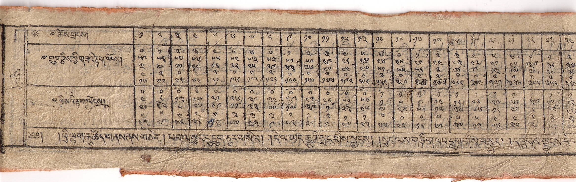 Tibetan chart of lunar days and length of the sun. The chart contains the length of the lunar days of a month in d and the change of the ecliptic length of the sun per lunar day. From a Tibetan blockprint (1918)